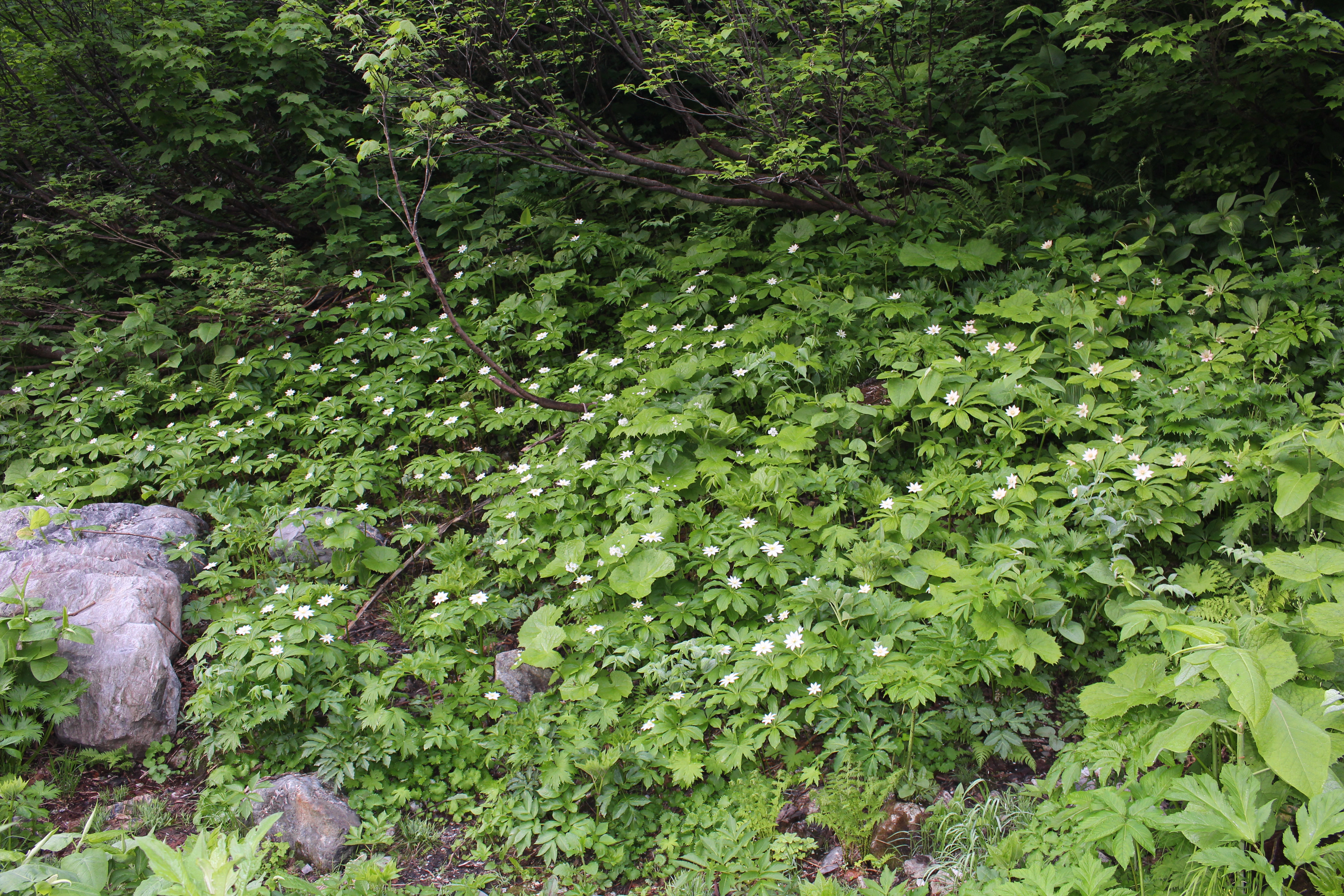 Kinugasa japonica (Paris japonica), in Mount Shirouma, Hakuba, Nagano prefecture, Japan.